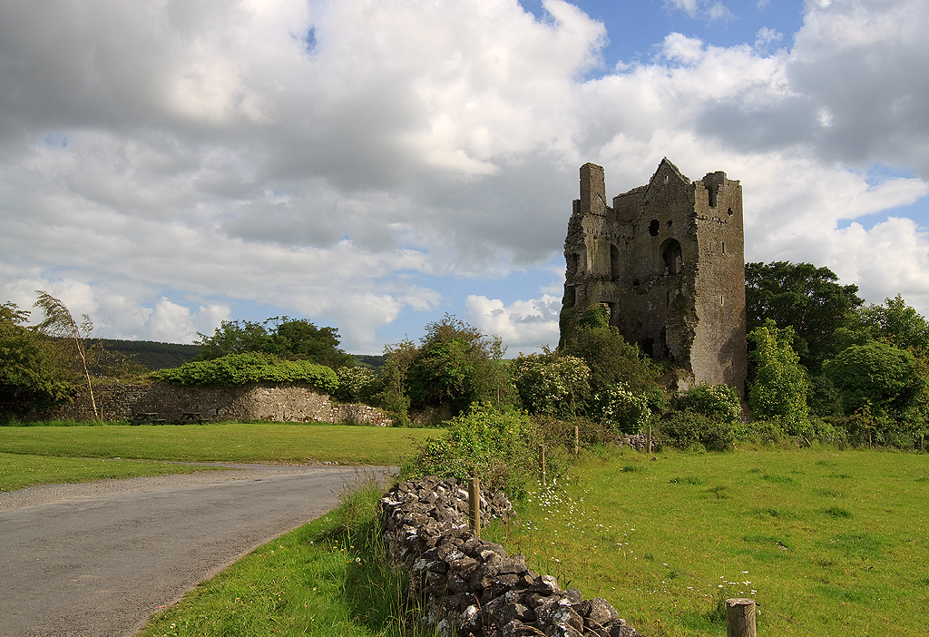 Castles of Leinster: Cullahill, Laois